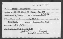 Cisyk Wolodymyr. US Naturalization Record. 1955